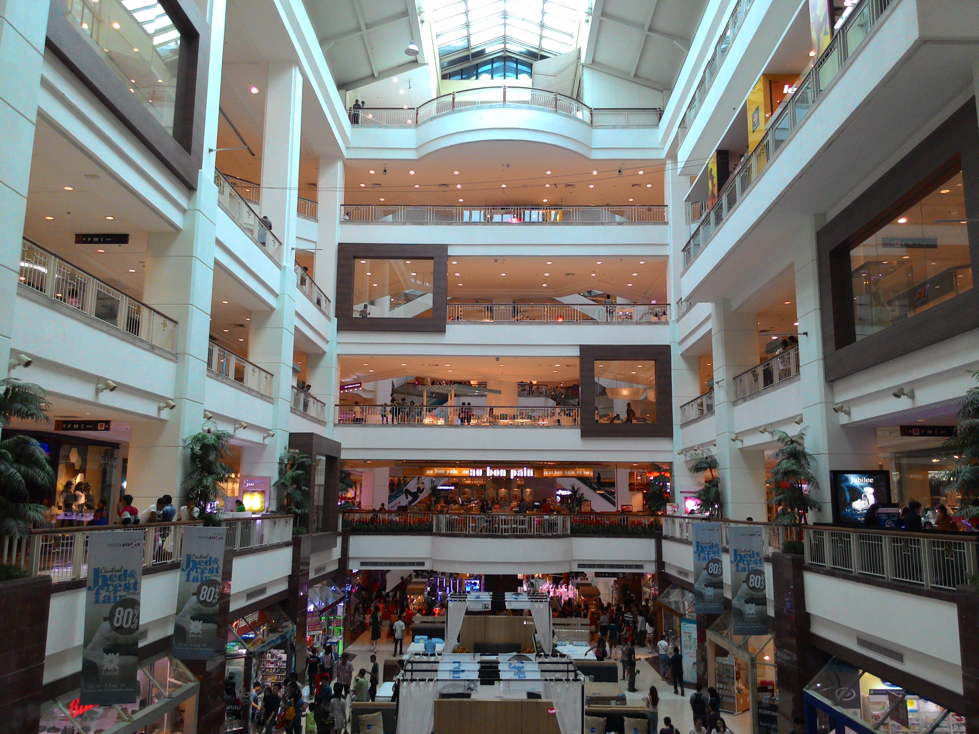 interior of CentralPlaza Pinklao